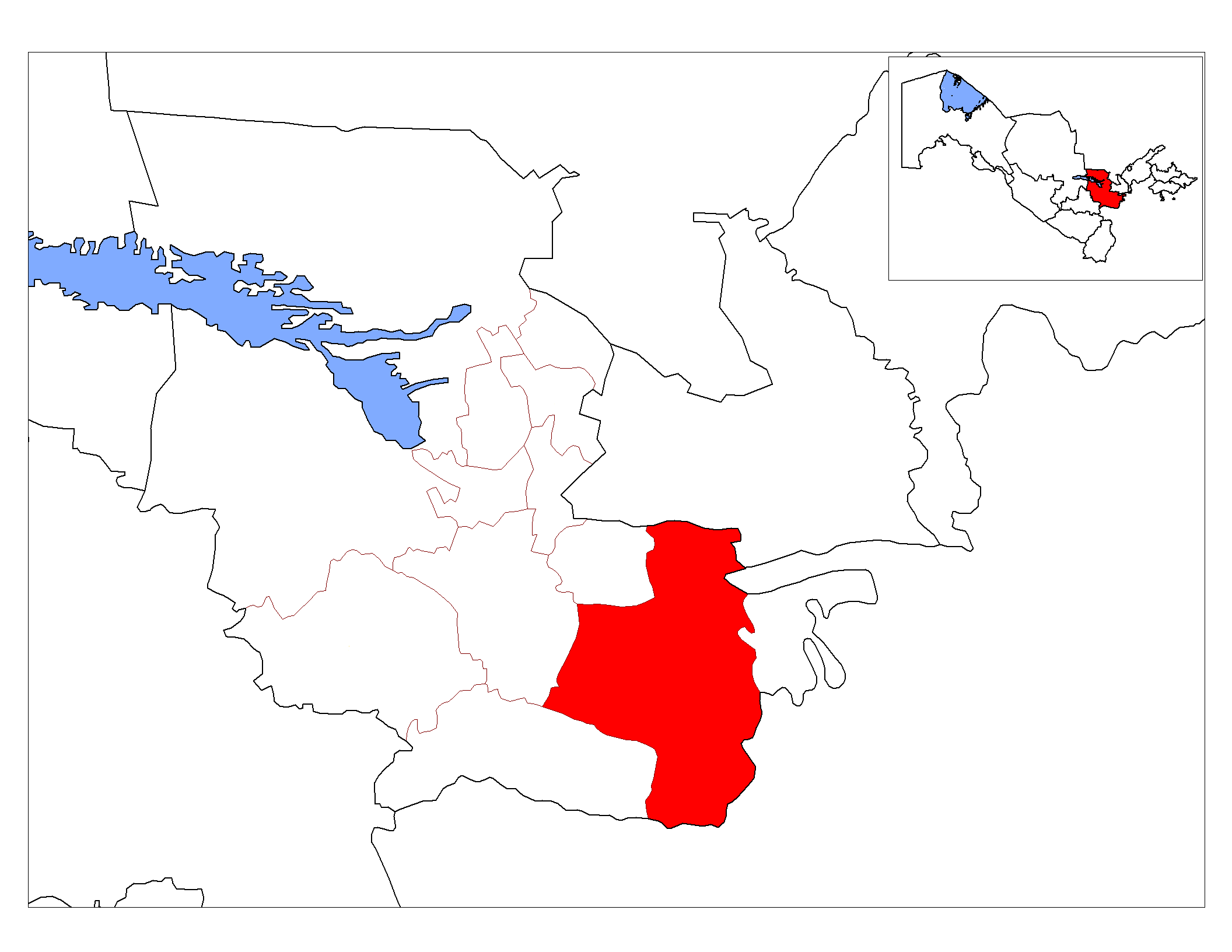 Location map of Zomin District in Jizzax Province, Uzbekistan